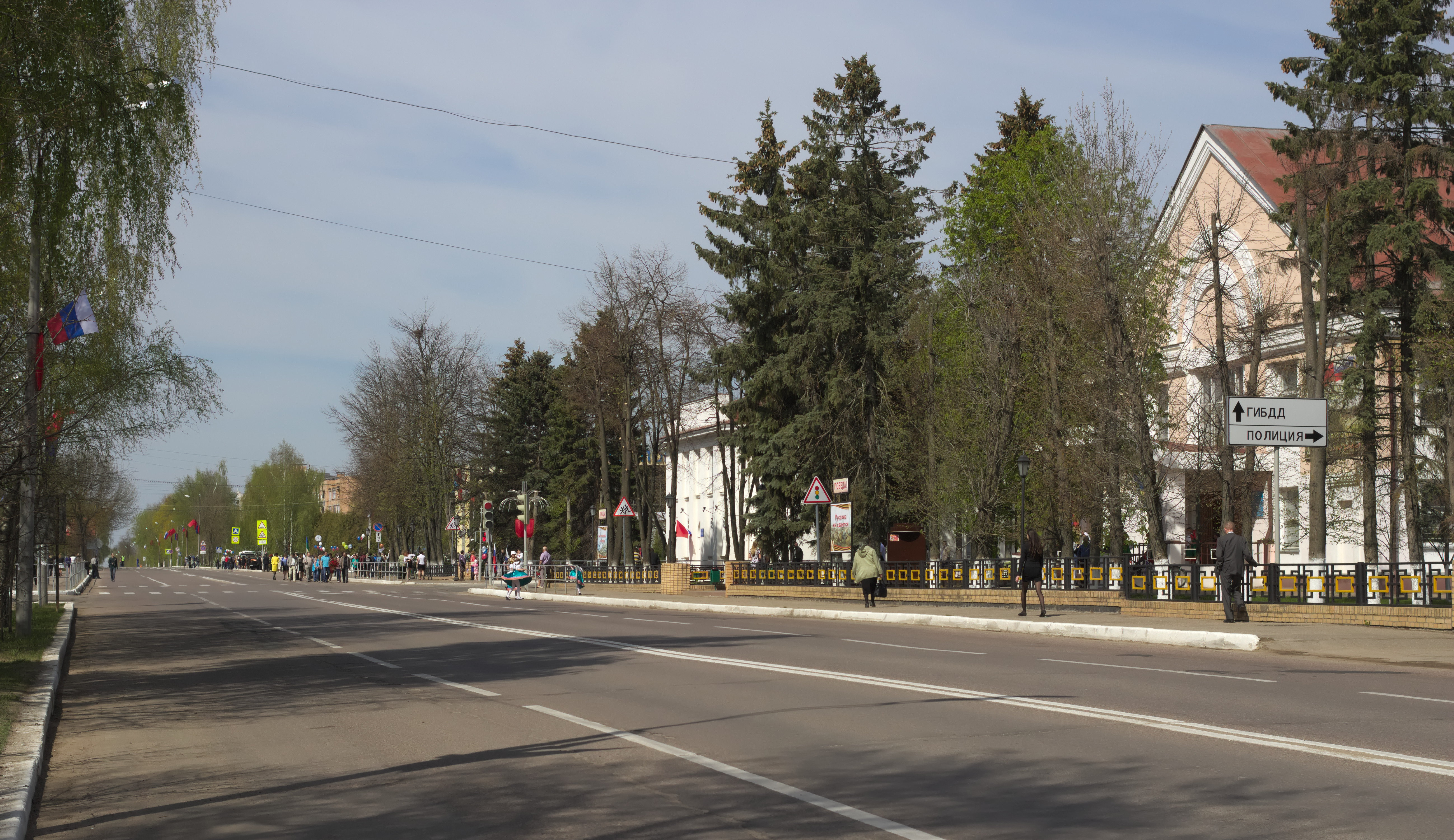 Main street in Lotoshino, V-Day 2015